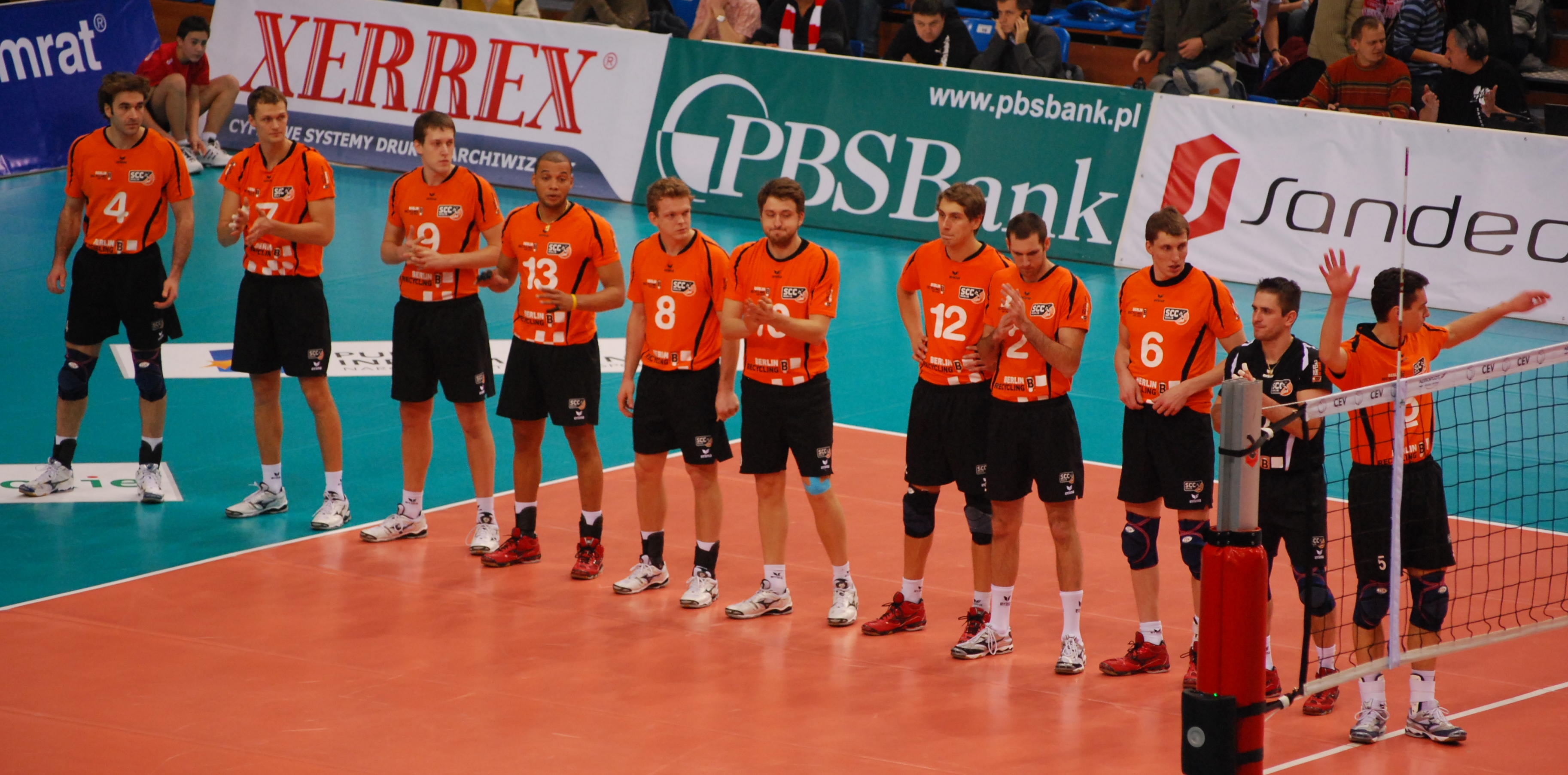 SCC Berlin volleyball team